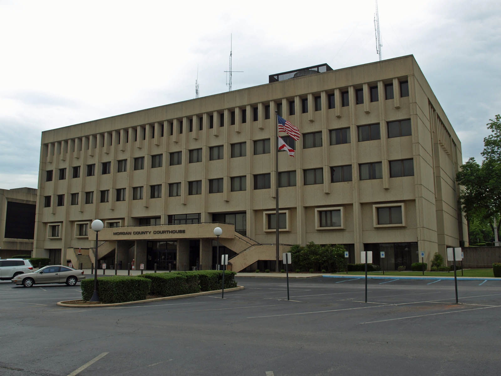 The Morgan County Courthouse in Decatur, Alabama